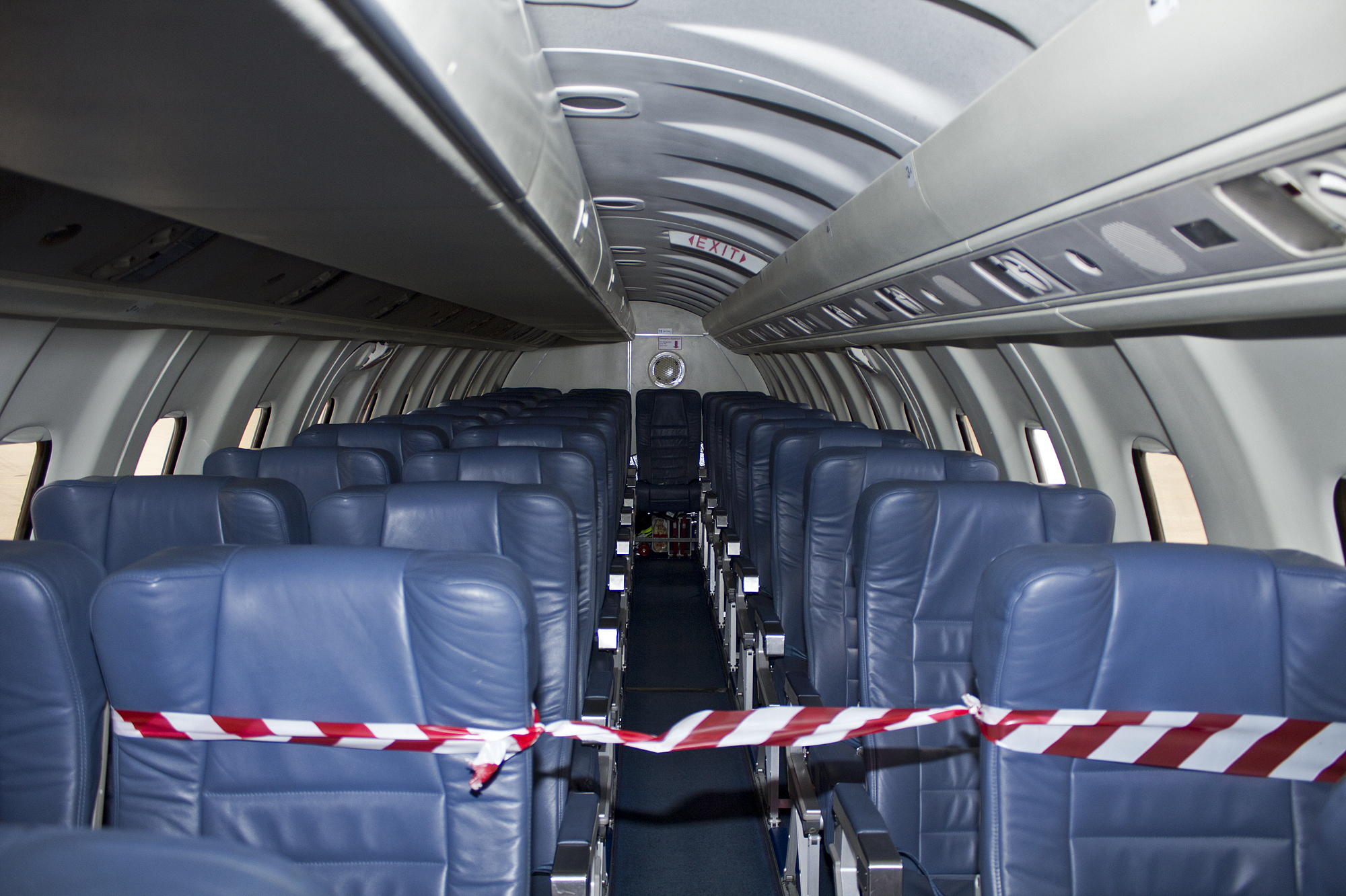 Passenger cabin of Regional Express Airlines' (VH-ZRN) SAAB 340B.